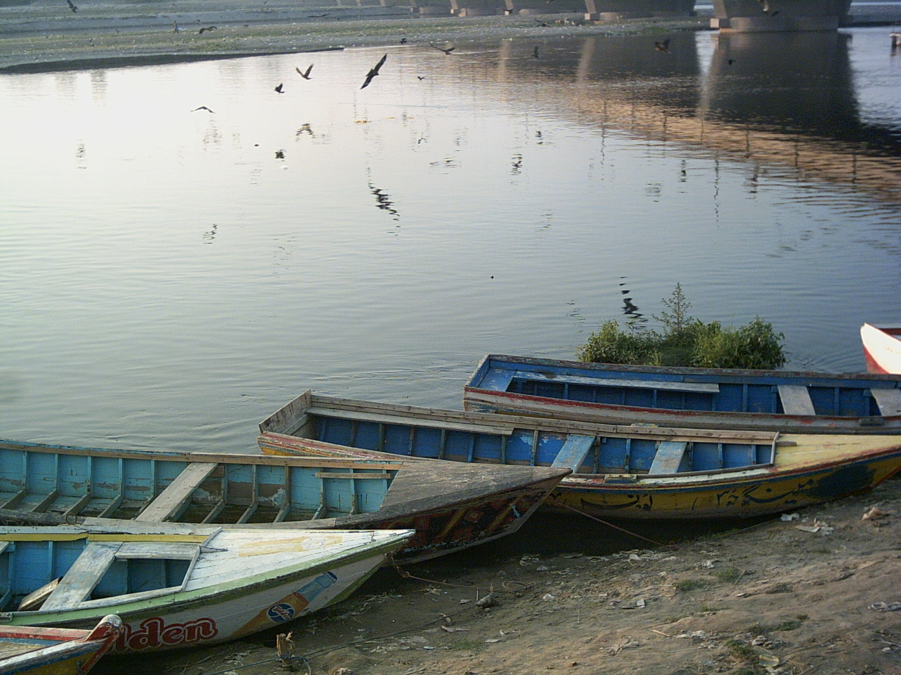 A view of Ravi river Lahore